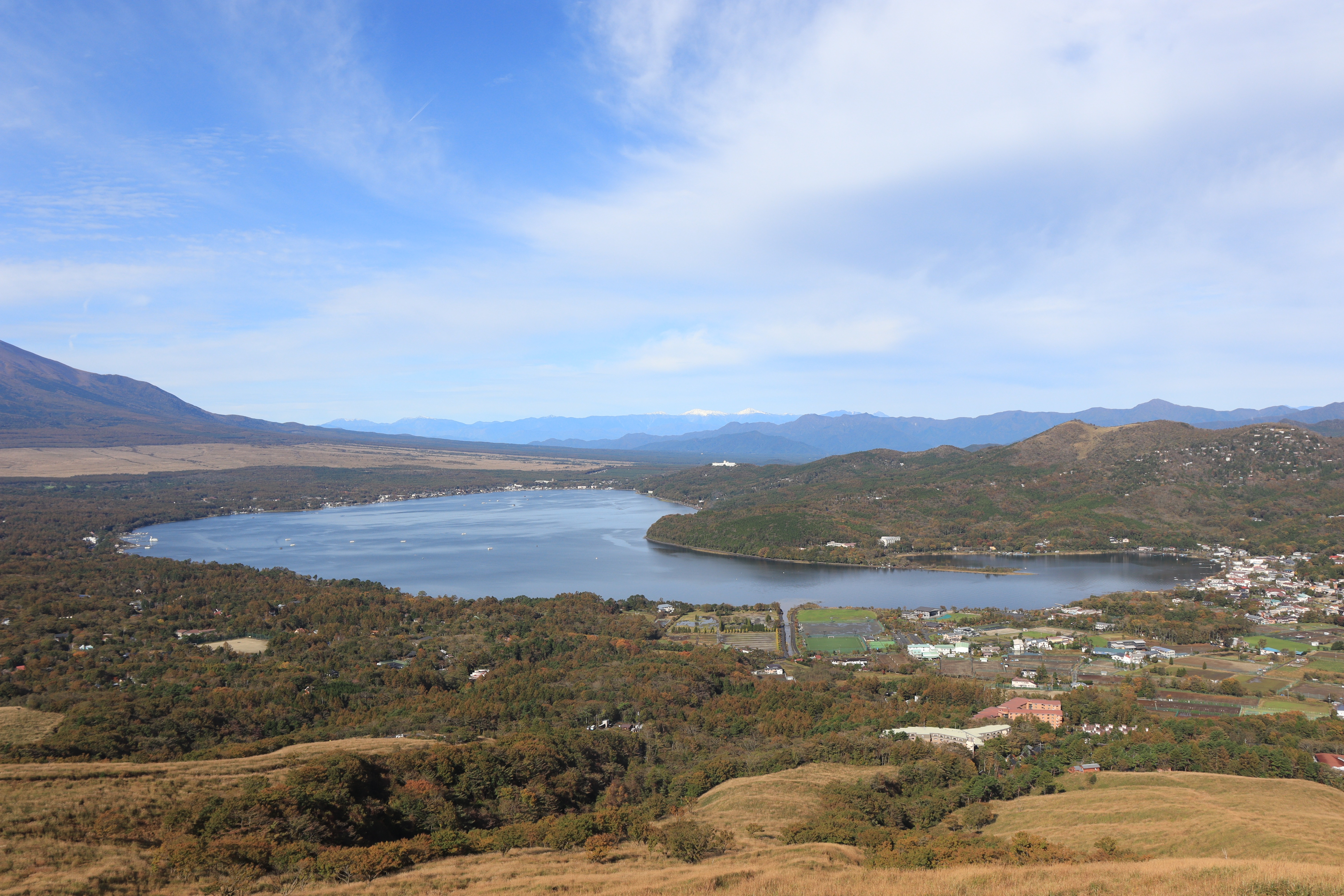 Lake Yamanaka seen from Mount Myojin in Yamankako, Yamanashi Prefecture, Japan.